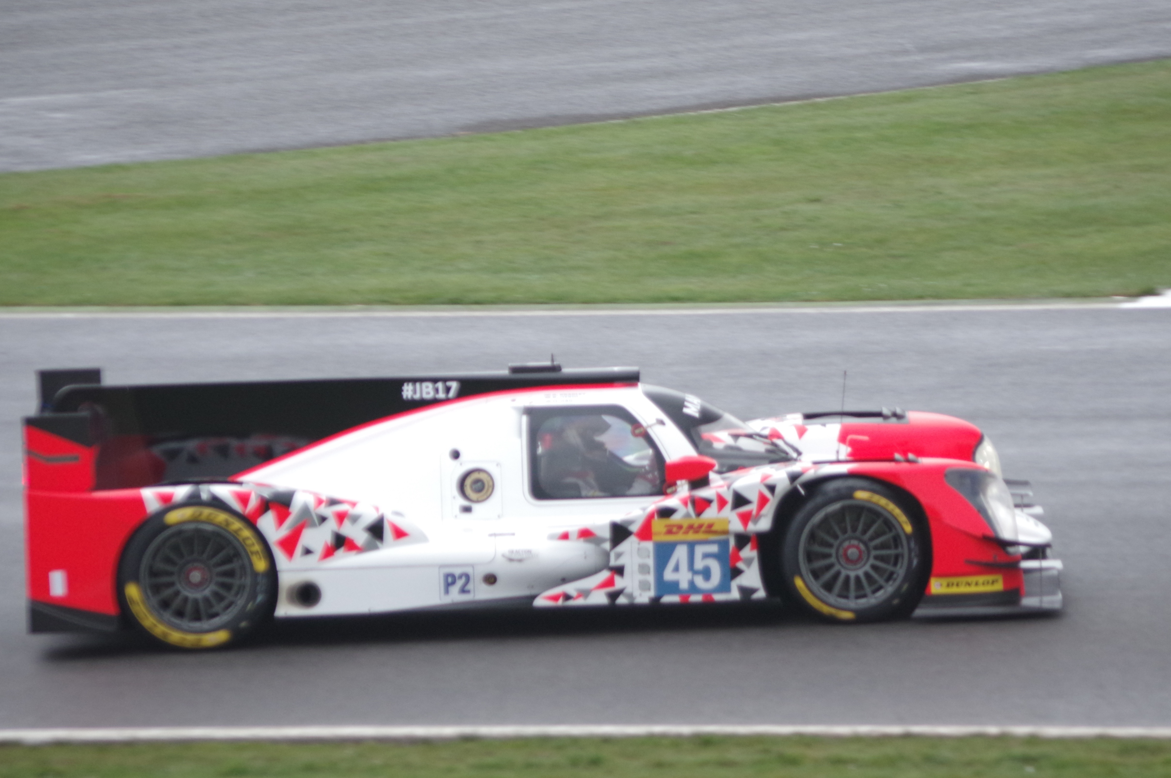 Manor Racing's Oreca 05 Nissan Driven by Matthew Rao, Richard Bradley and Roberto Merhi